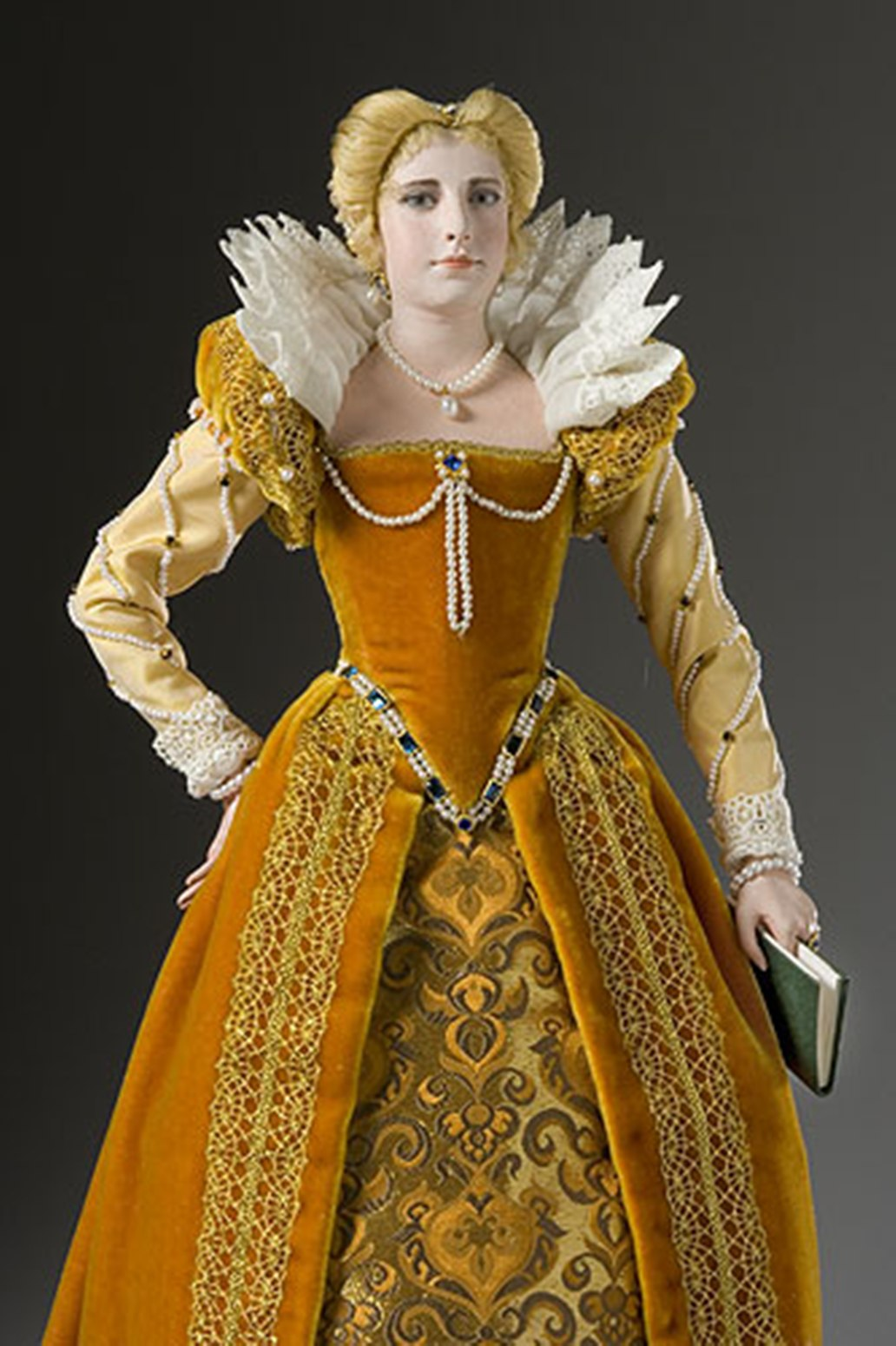 Historical Mixed Media Figure of Marguerite de Valois produced by artist/historian George S. Stuart and photographed by Peter d'Aprix. This image, from the George S. Stuart Gallery of Historical Figures® archive ( is provided for all uses with appropriate attribution. Any derivatives must be shared in the same manner. Contributor mharrsch is webmaster for the gallery site.